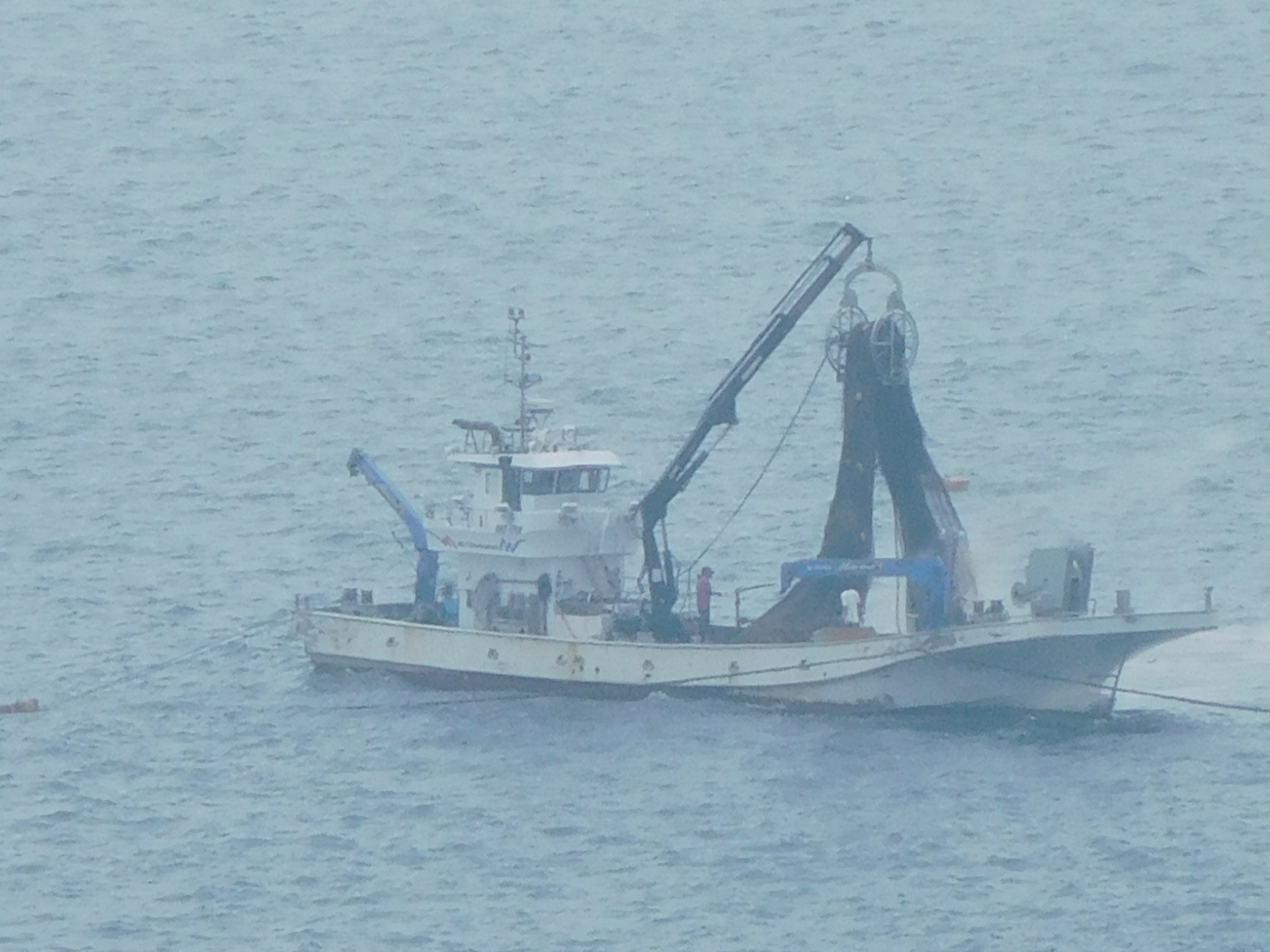 This is a scene of set net fishing off the coast of Enoshima, Fujisawa, Japan.